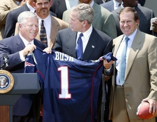 New England Patriots owner Bob Kraft (left), U.S. President George W. Bush (center), and Patriots head coach Bill Belichick during a photo opportunity with the Super Bowl champions in the Rose Garden on May 10, 2004. (Cropped from an original White House photograph)